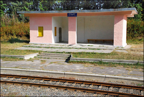 Start Railway Halt, South-Western Railway, Ukraine.